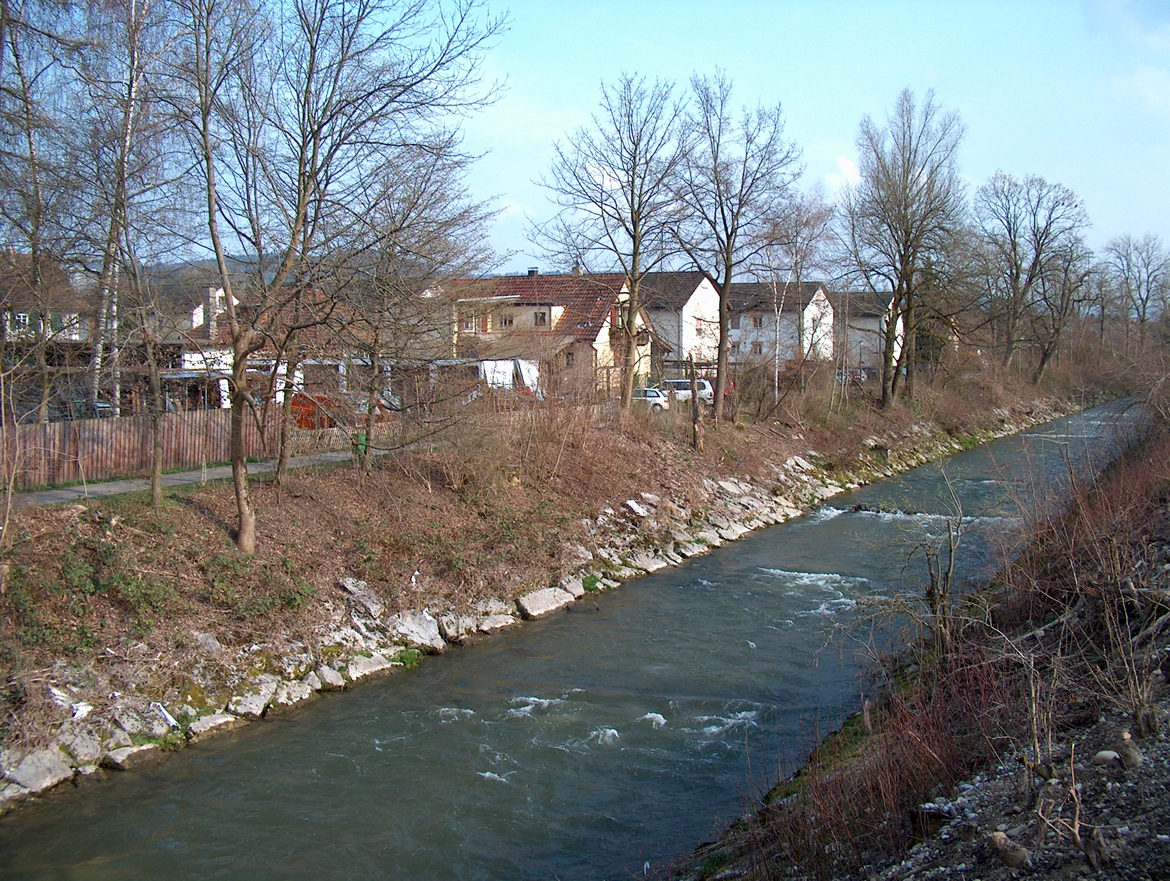 Swiss river Wigger. Photo taken from a bridge between Zofingen and Strengelbach in the canton of Aargau, April 4, 2009.